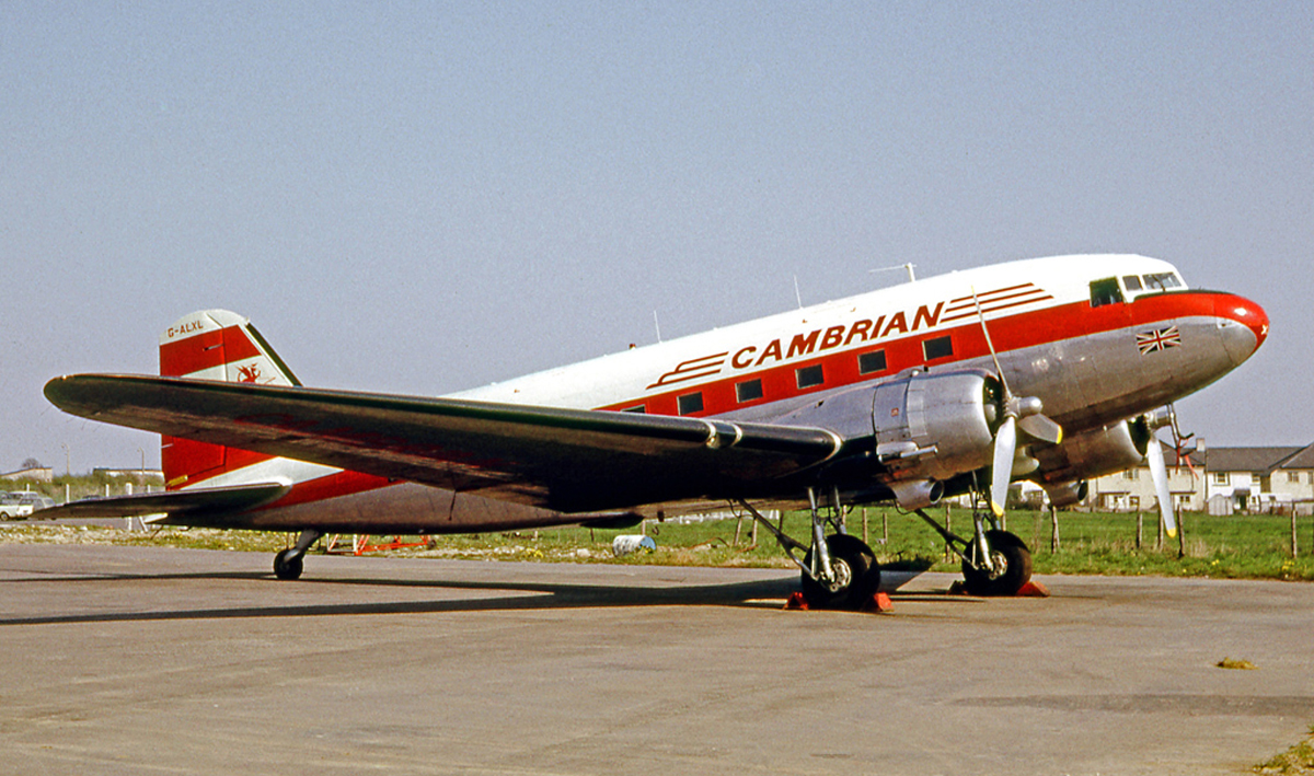 Douglas C-47B (DC-3) G-ALXL of Cambrian Airways at Cardiff Rhoose Airport in 1966